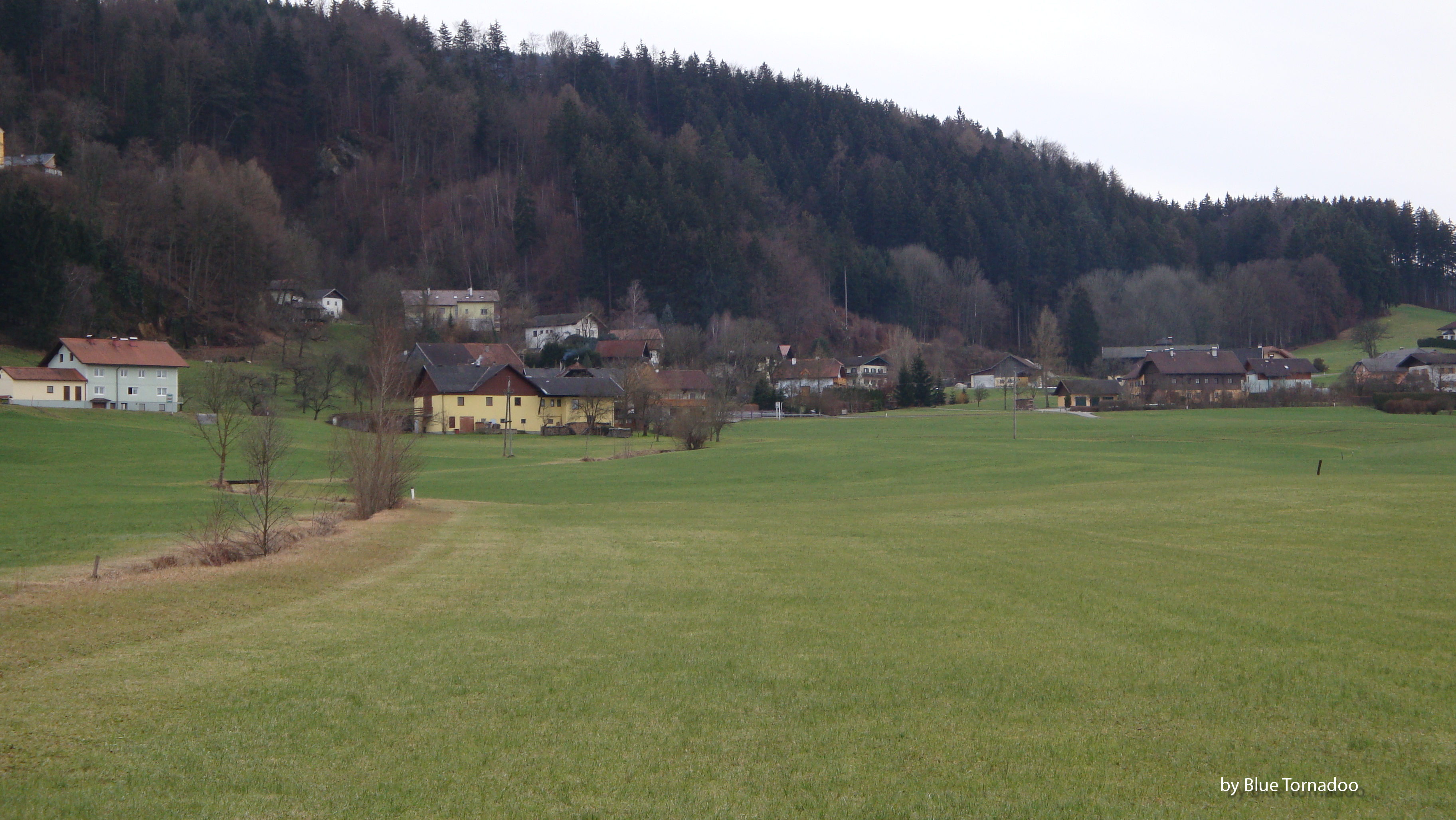 Schlössl, village within the municipality of Nußdorf am Haunsberg, state of Salzburg, Austria